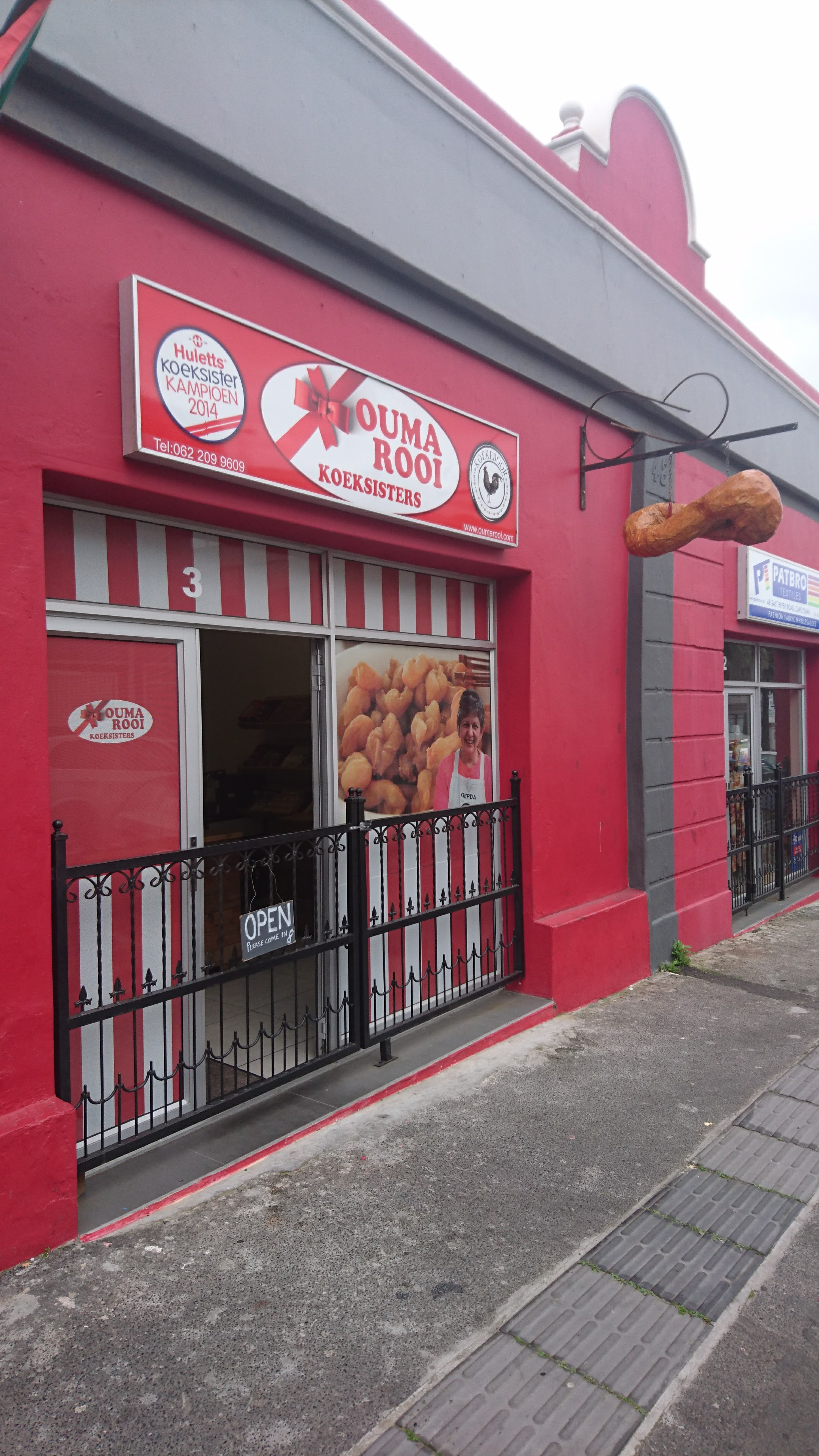 A shop specialising in selling Koeksisters on Salt River Road, Salt River, Cape Town.